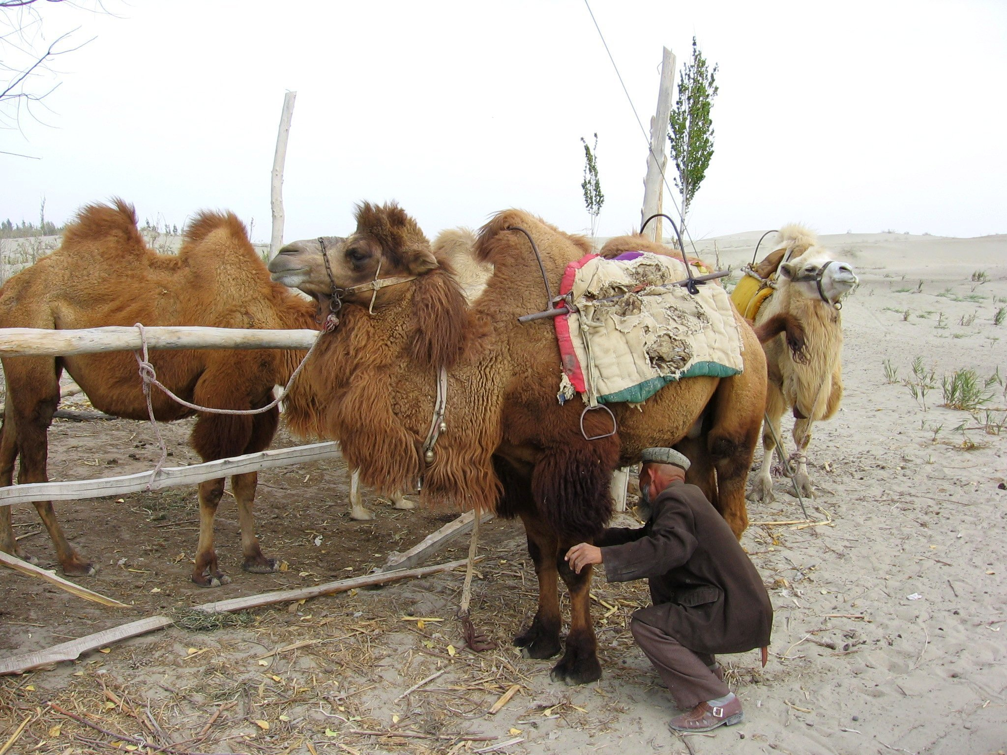 Camels in a little village close to Taklamakan desert near Yarkand, Autonomous Region of Xinjiang, China.